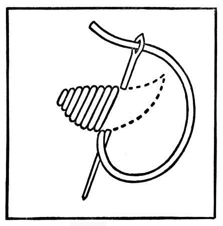 Satin stitch